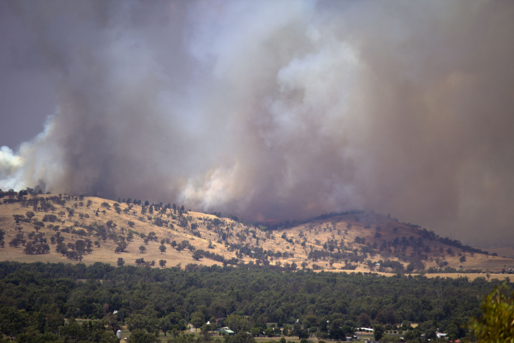 Oura grass fire, viewed from Willans Hill in Wagga Wagga.